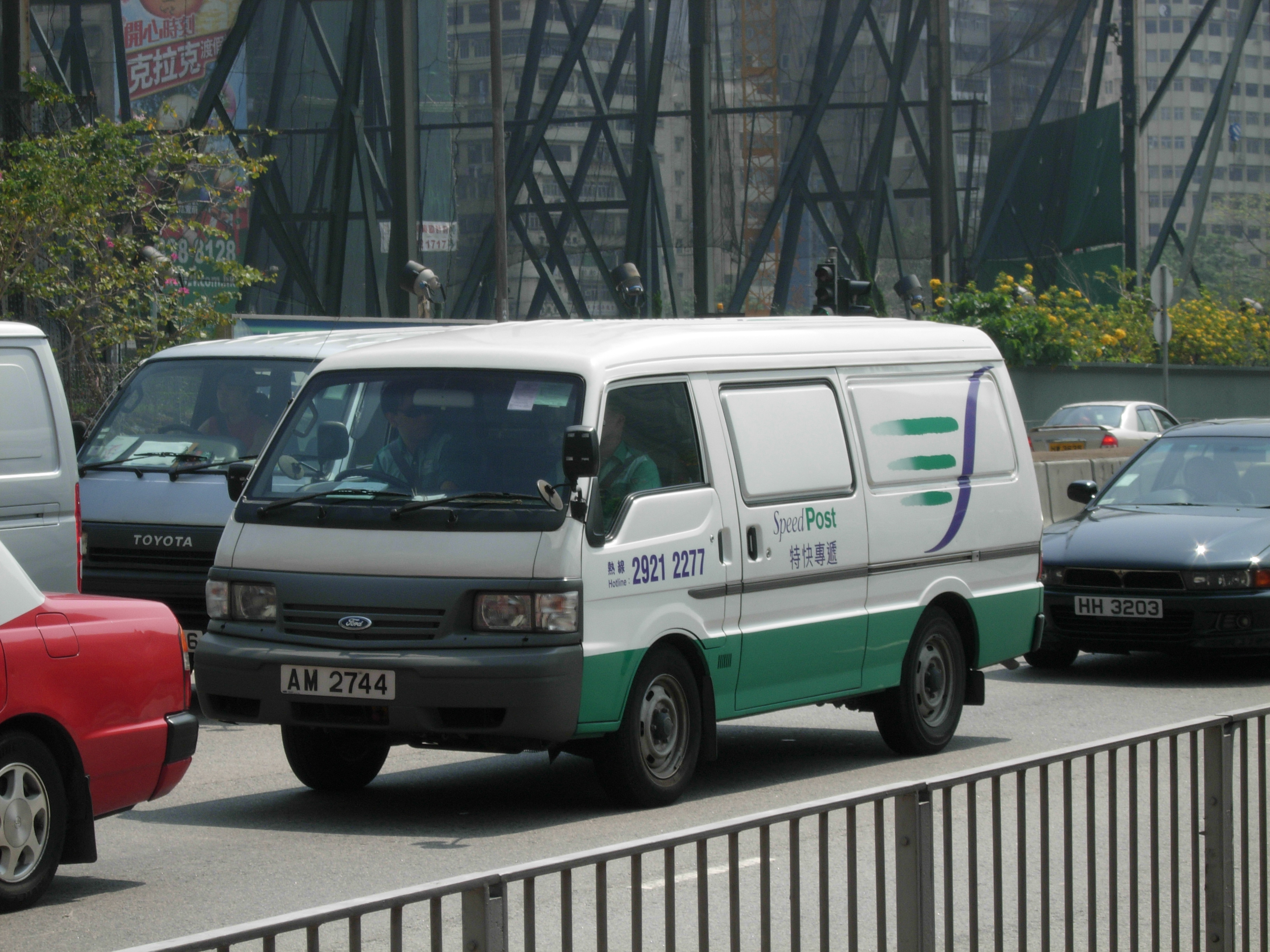 A SpeedPost van AM2744 of Hongkong Post.